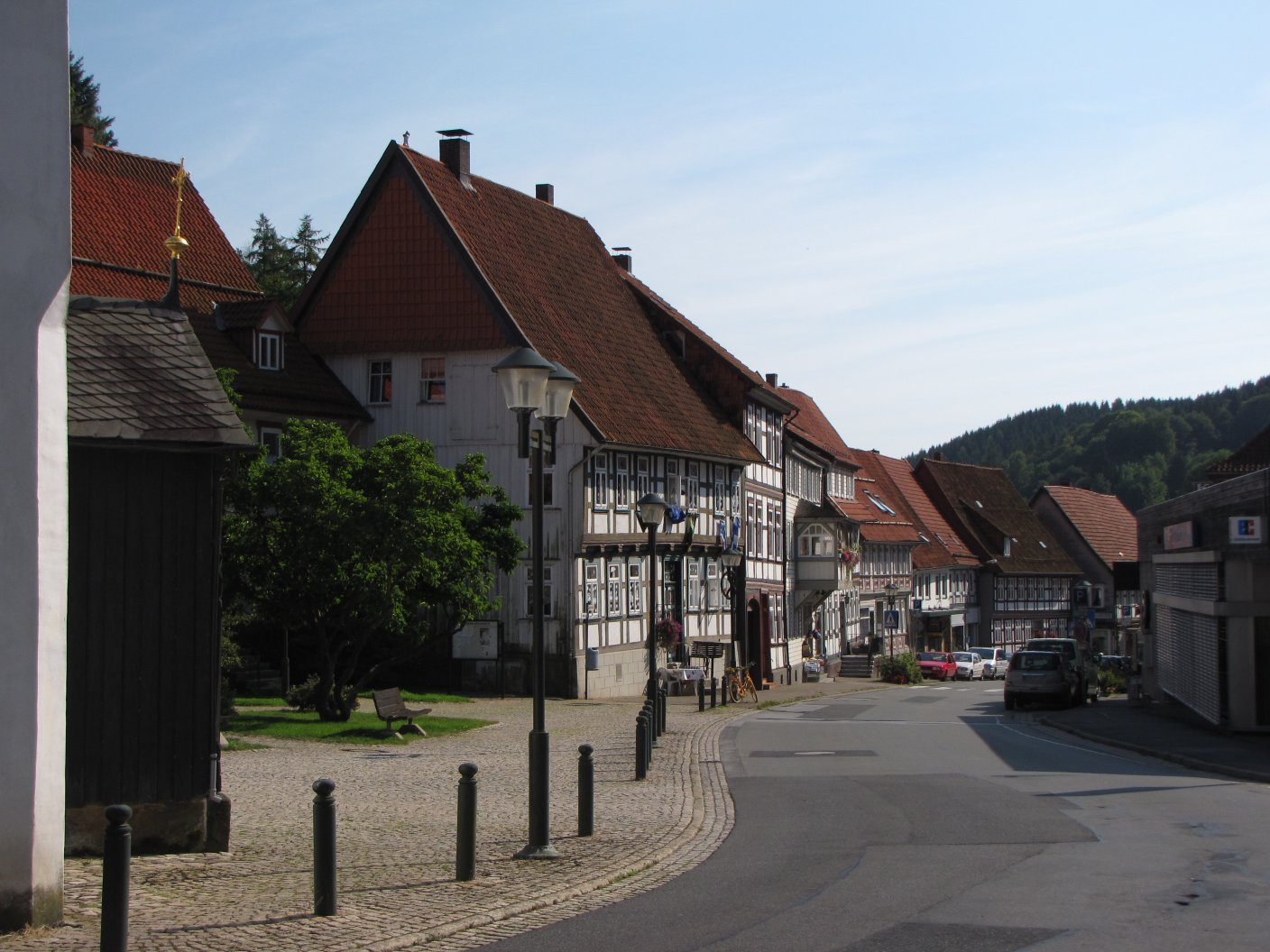 Osteroder Straße, Bad Grund, Harz.